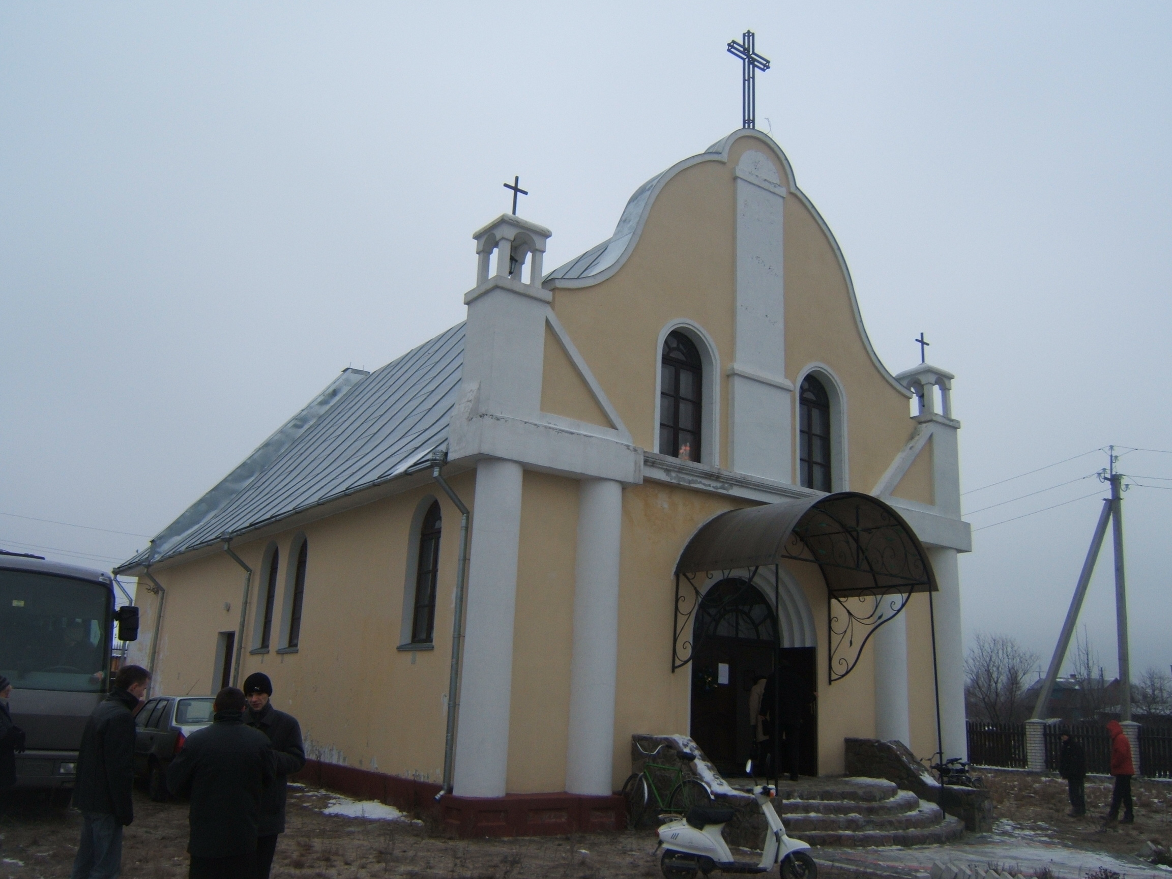 Church in Tomaszgrod, Ukraine